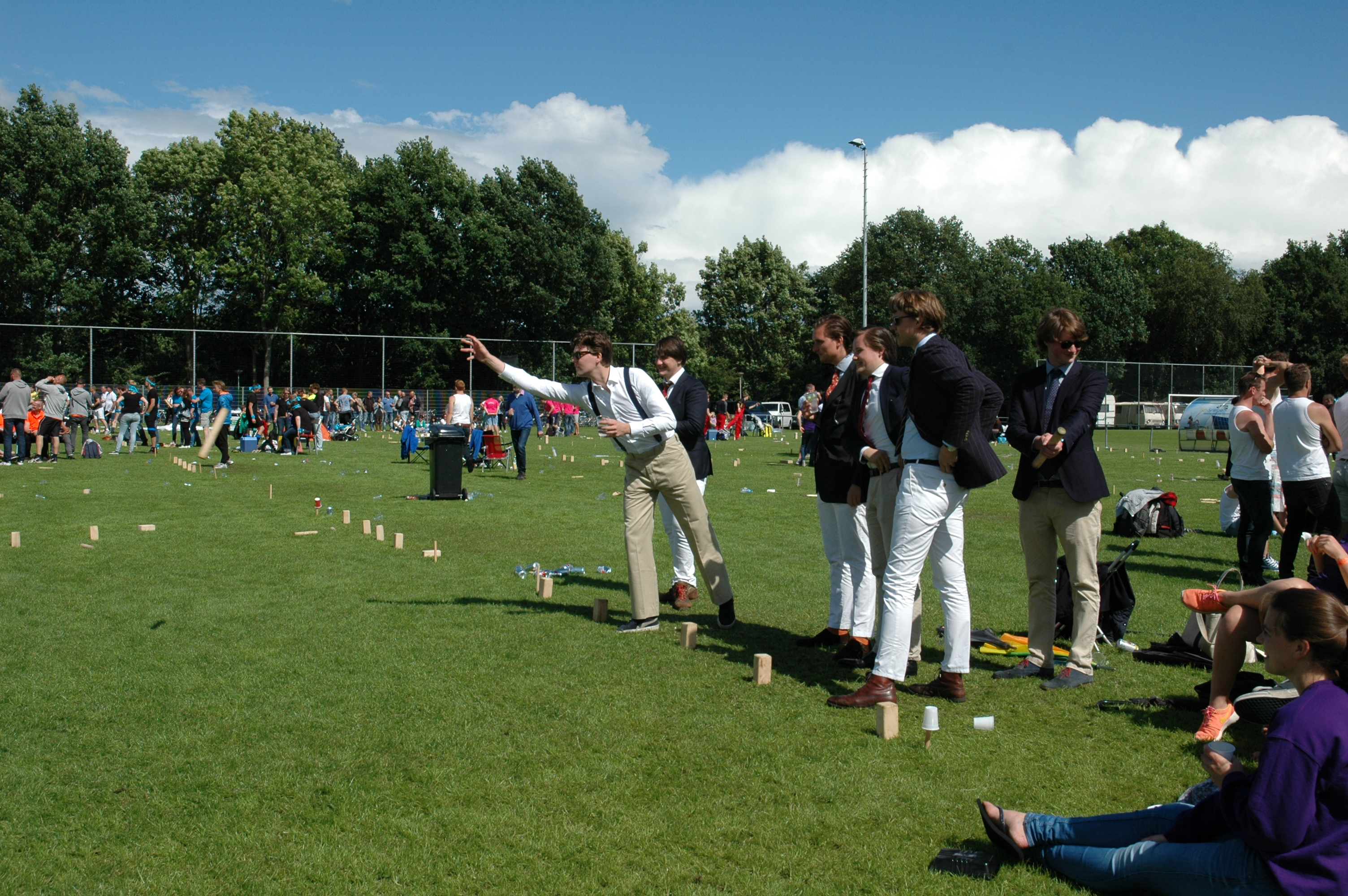 Dutch Kubb team NK Kubb